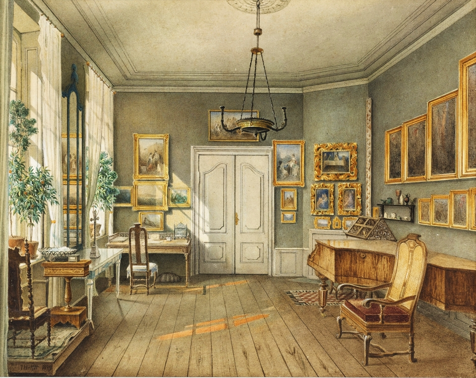 The music room of Fanny Hensel, née Mendelssohn Bartholdy in her home at Leipziger Str. 3, Berlin